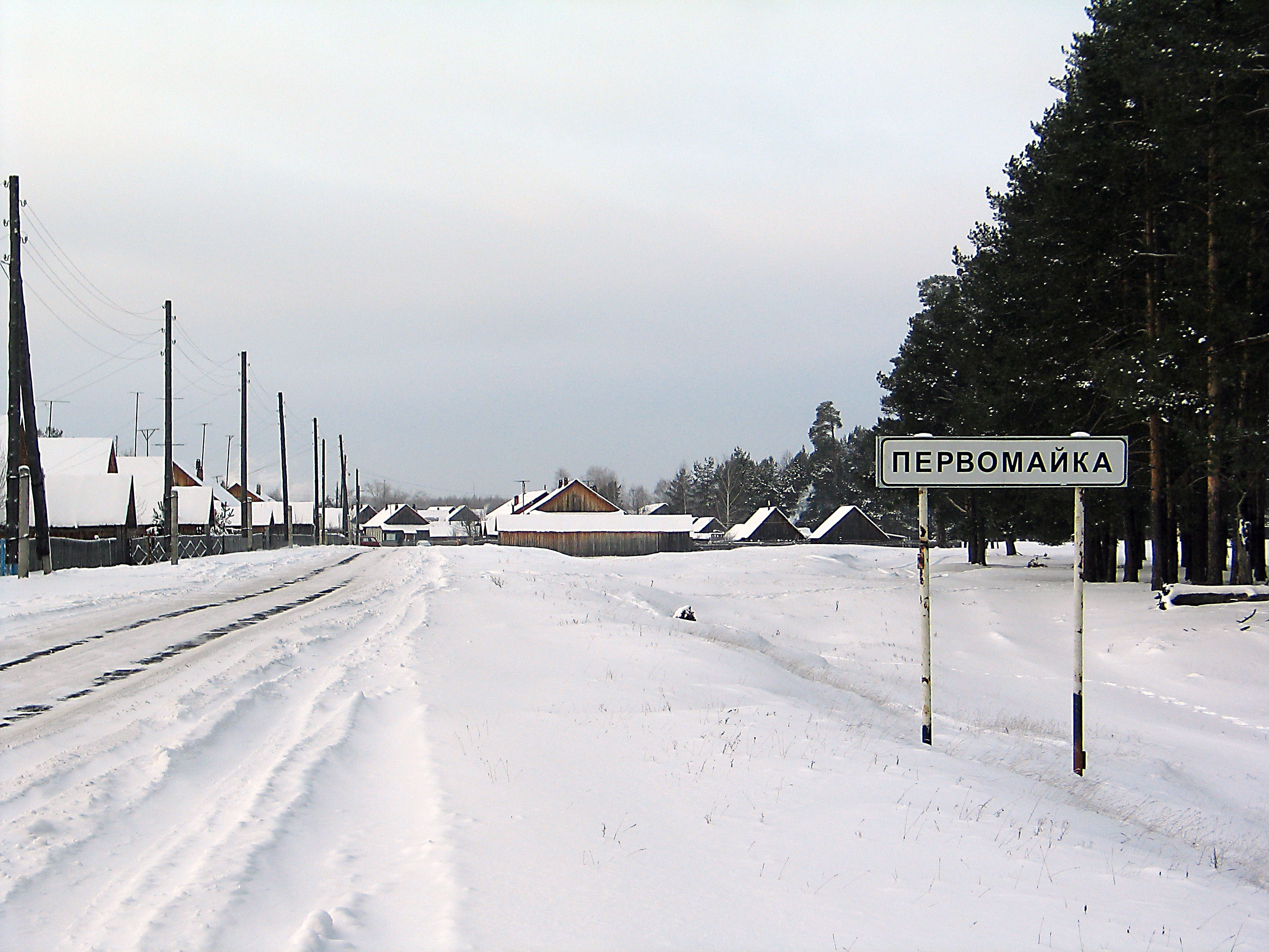 Description entrance to Pervomayka (Kostroma region, Russian Federation) Date7 January 2009SourceOwn workAuthorBeumont